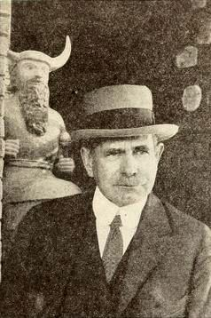 American antiquarian Edgar James Banks, from page 23 of the March 1922 The Photodramatist.